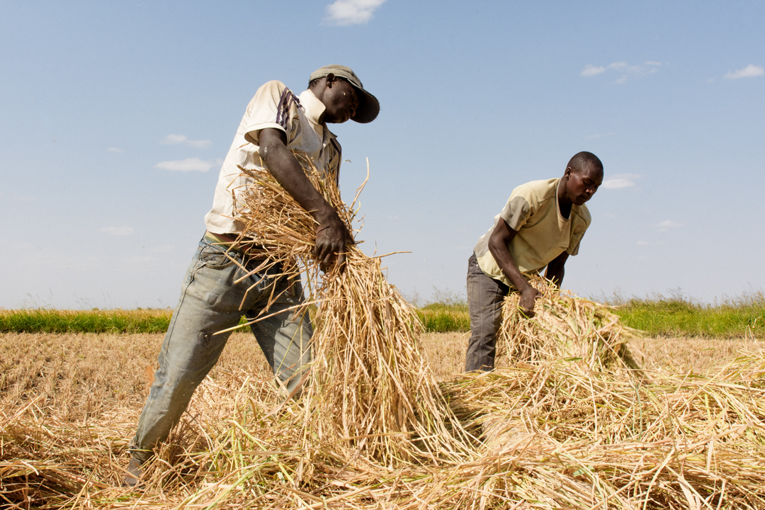 Farmers clearing a rice field using their hands. This is an image of "African people at work" from Tanzania